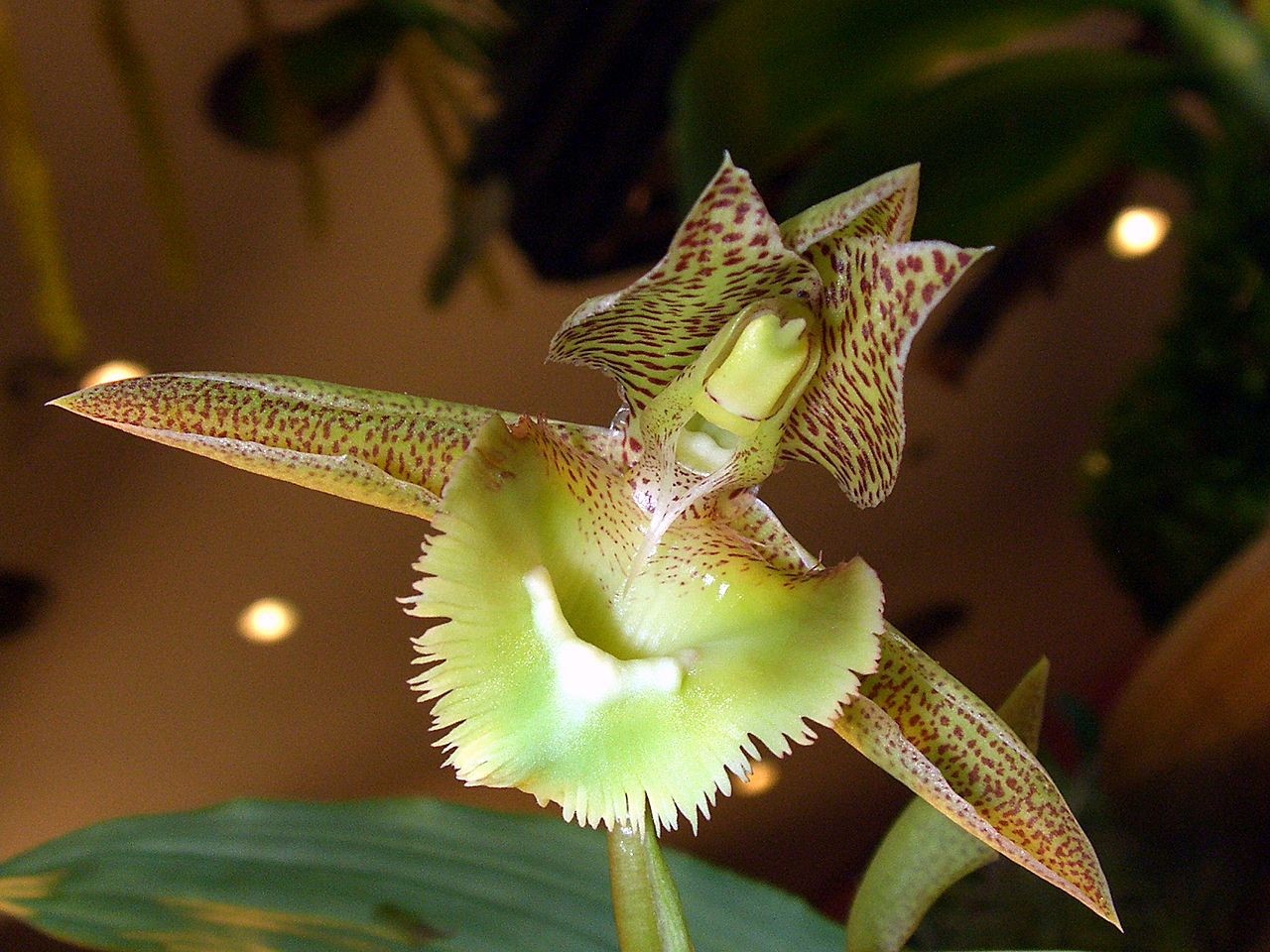 Catasetum fimbriatum - flower